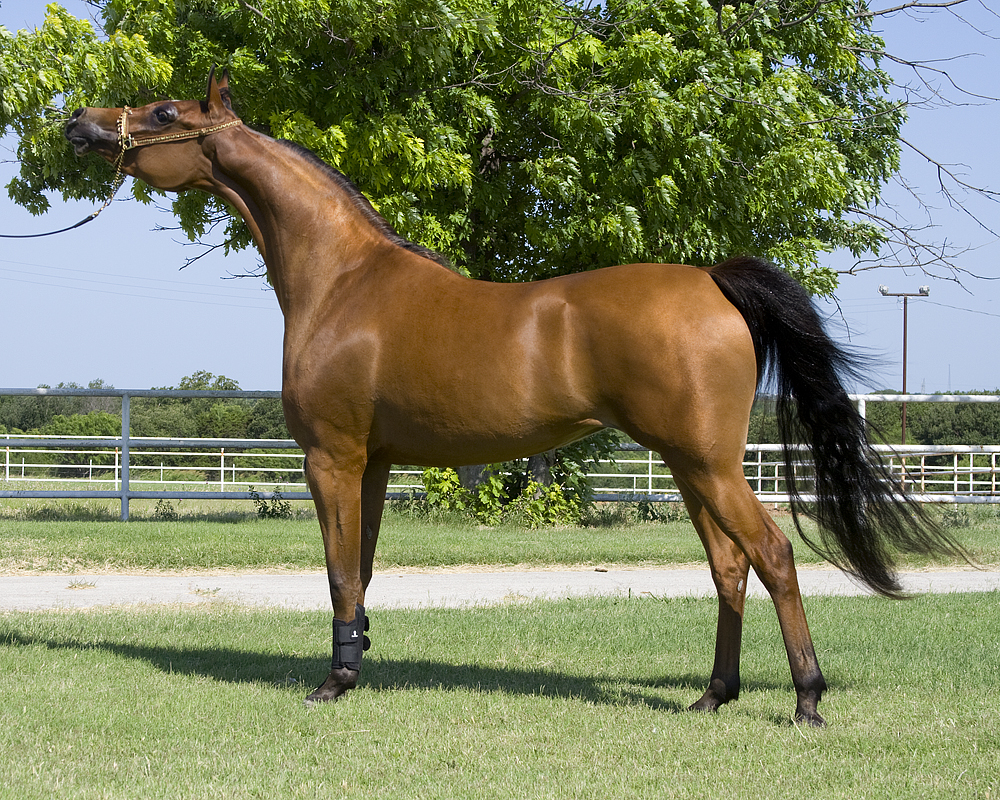 Arabian mare standing in a show halter pose